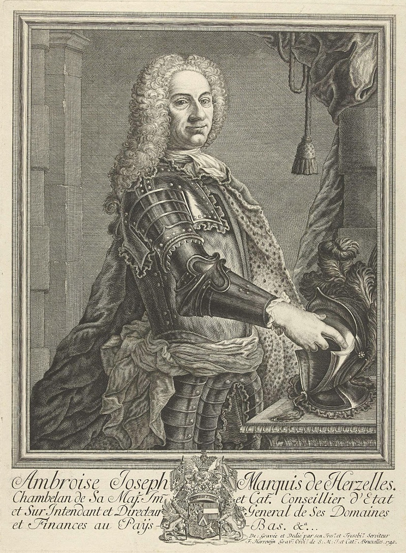 Portret van Ambroise-Joseph, marquis de Herzelles